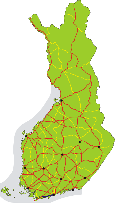 Map of the main road 51 in Finland, shown in dark blue. The other 1st class main roads (numbers 1–29) are red, 2nd class main roads (numbers 40–98) yellow. Black dots show the 12 biggest urban areas.